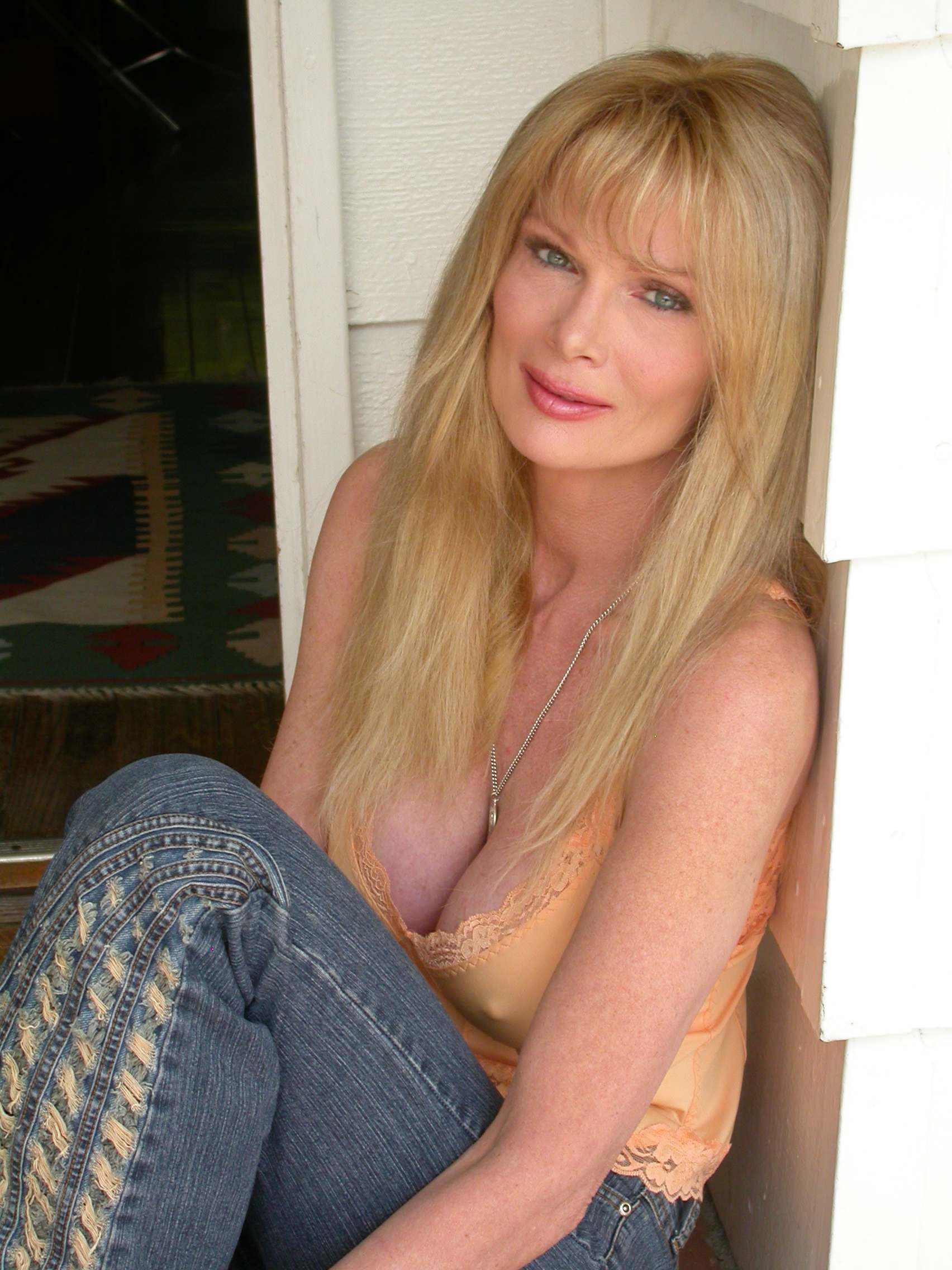 Pro shot of Laurene Landon - second of series